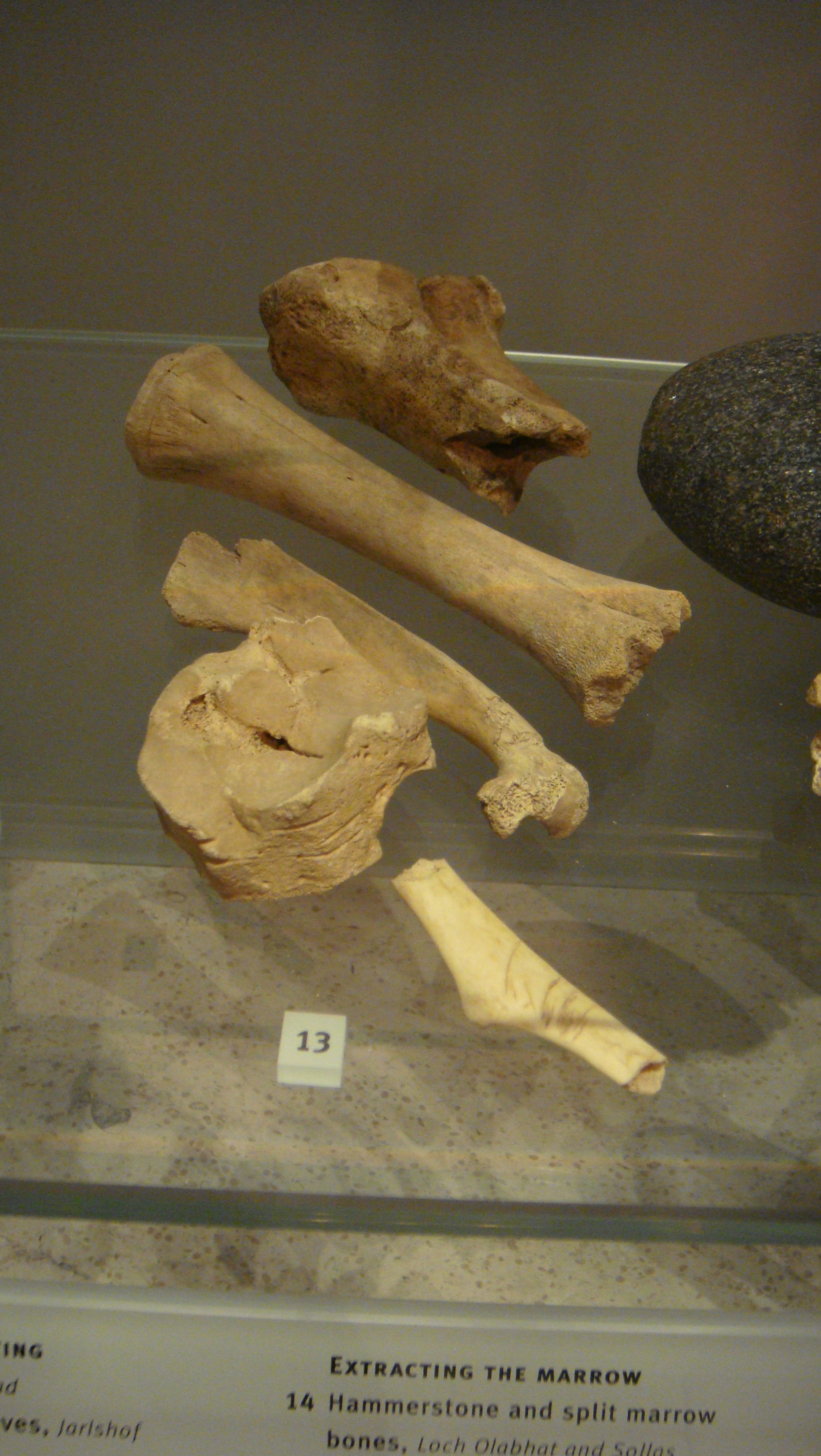 13. Bones with butchery marks. Skara Brae